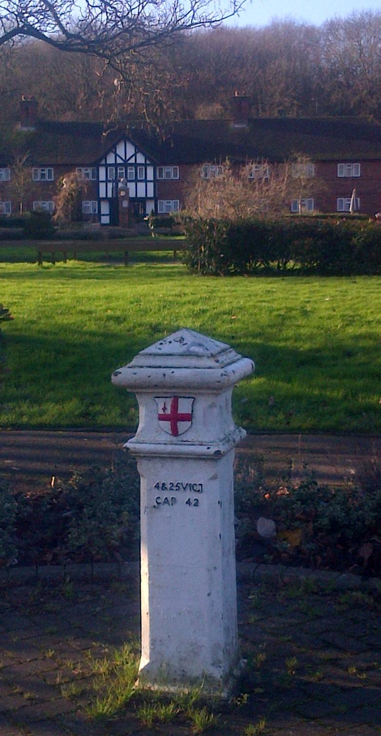 A Coal Post at Brittenden Close, Green Street Green, south east England.